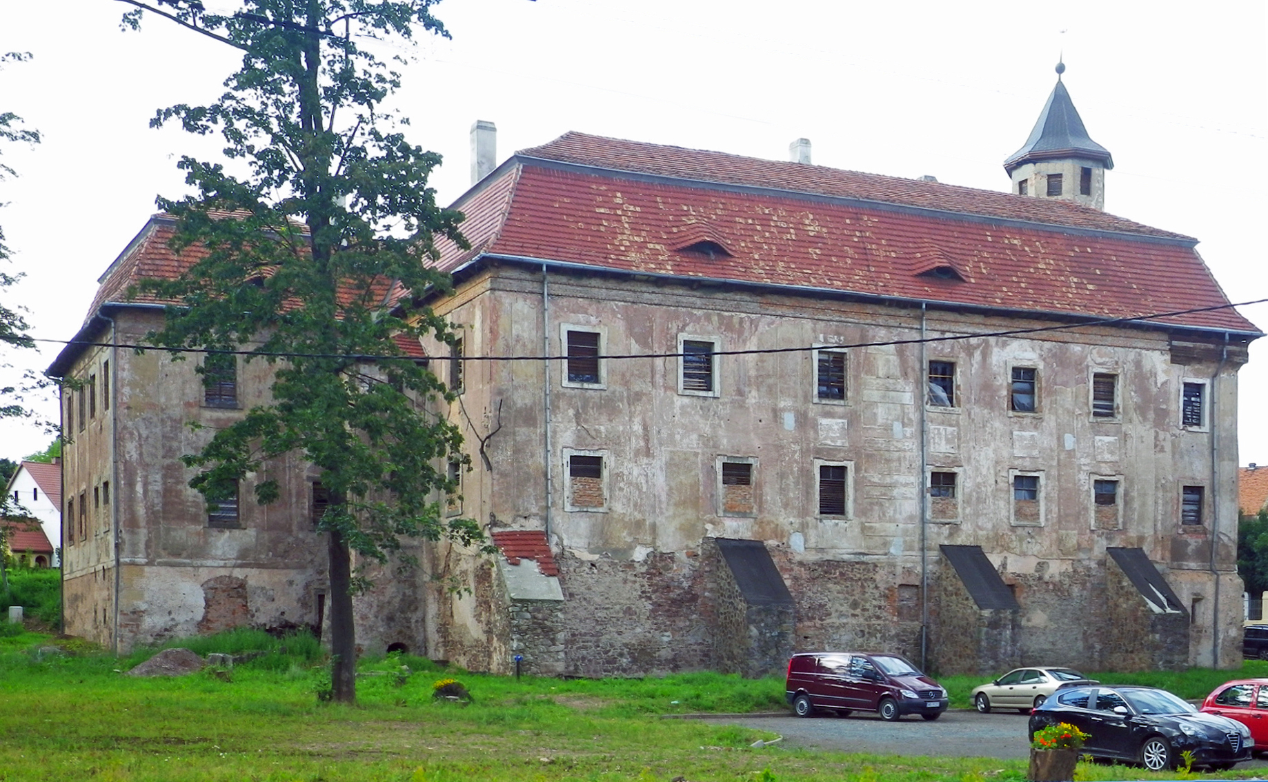 Palace in Struga (Poland, powiat wałbrzyski) from 17-19th century